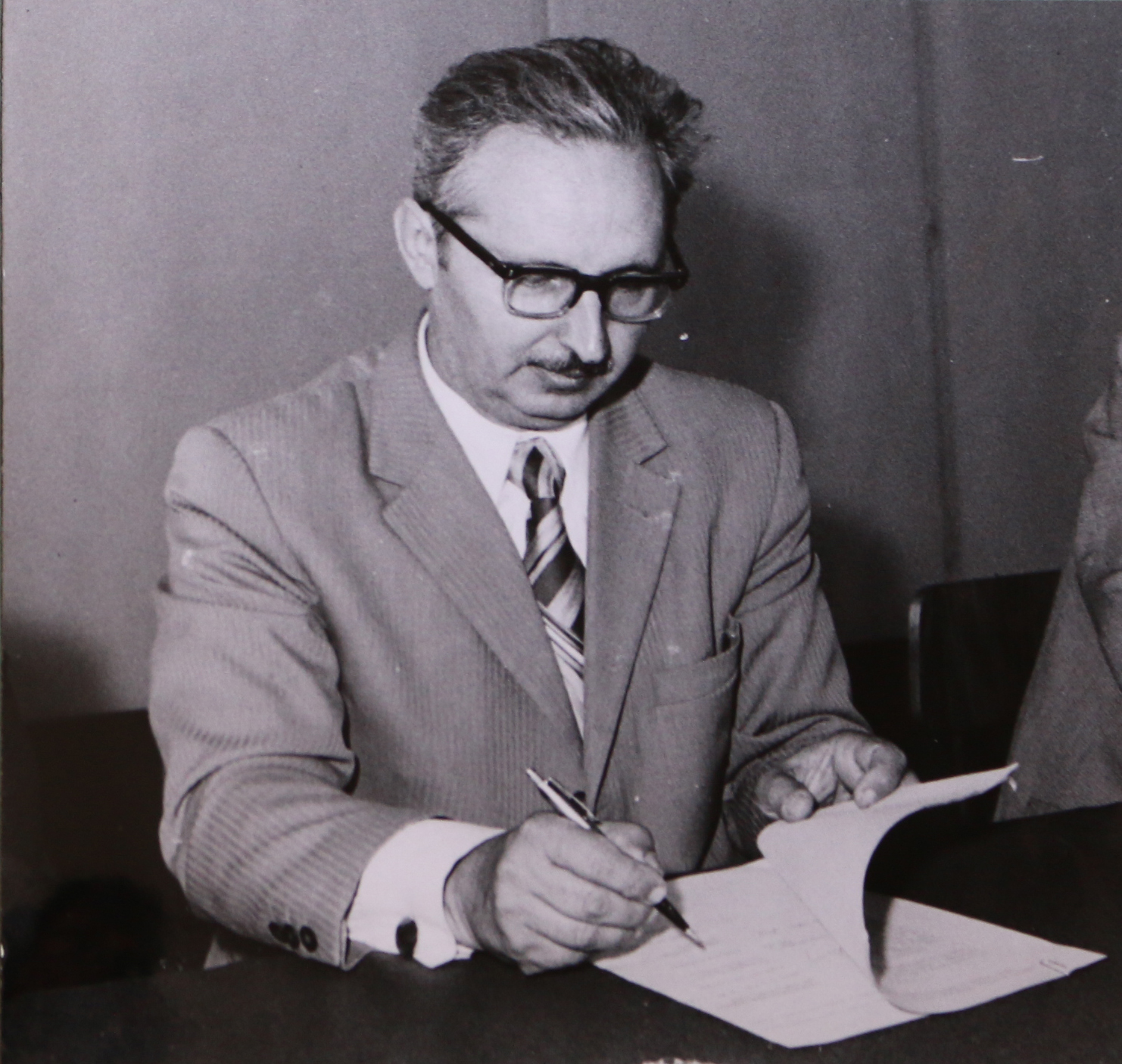 Prof. Jordan Boyanov at Technical University of Sofia